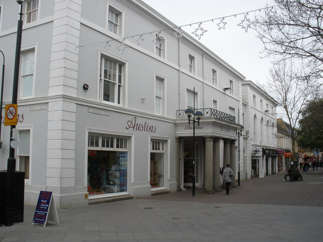 Austins department store, Courtney Street, Newton Abbot